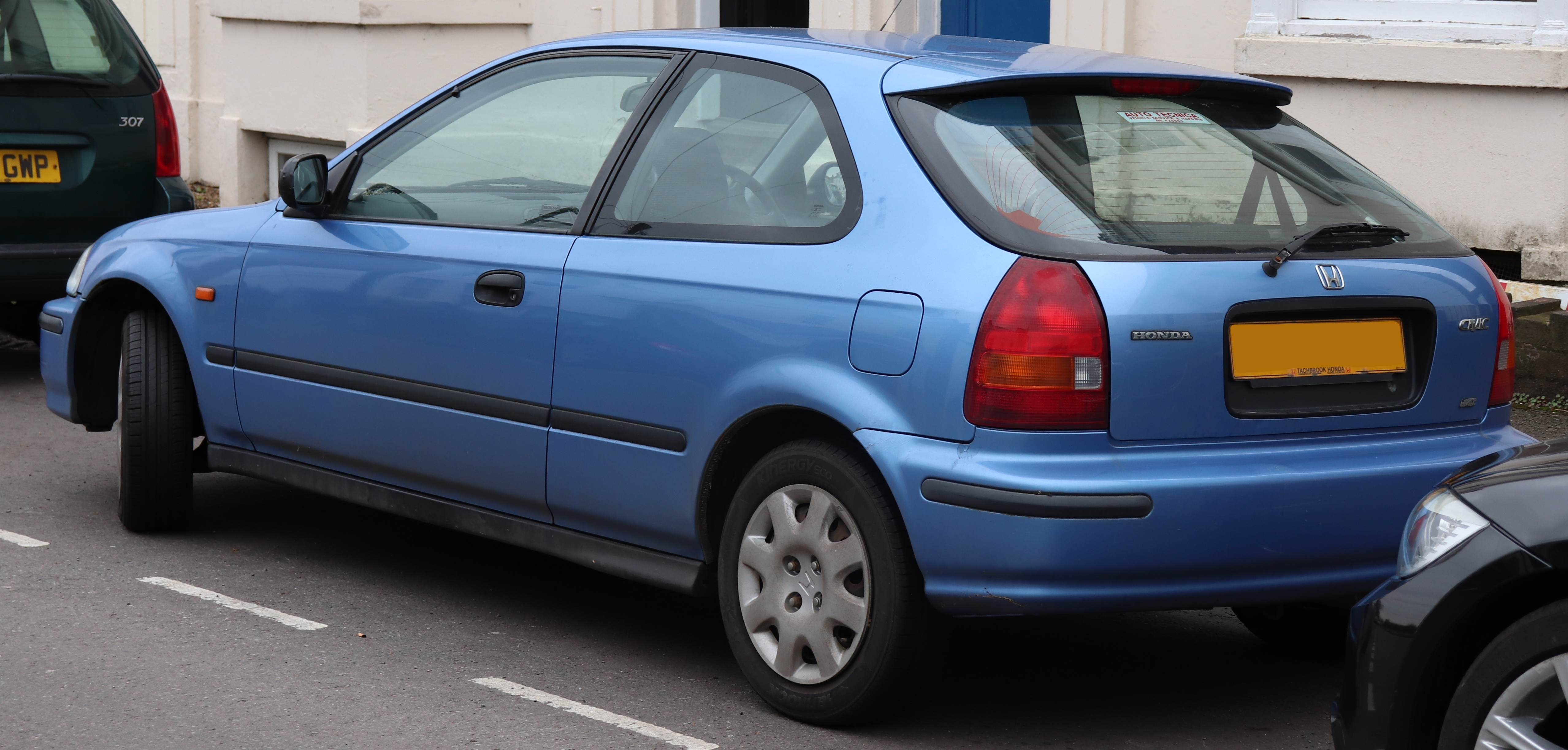 1997 Honda Civic Initial 1.4 Rear Taken in Leamington Spa